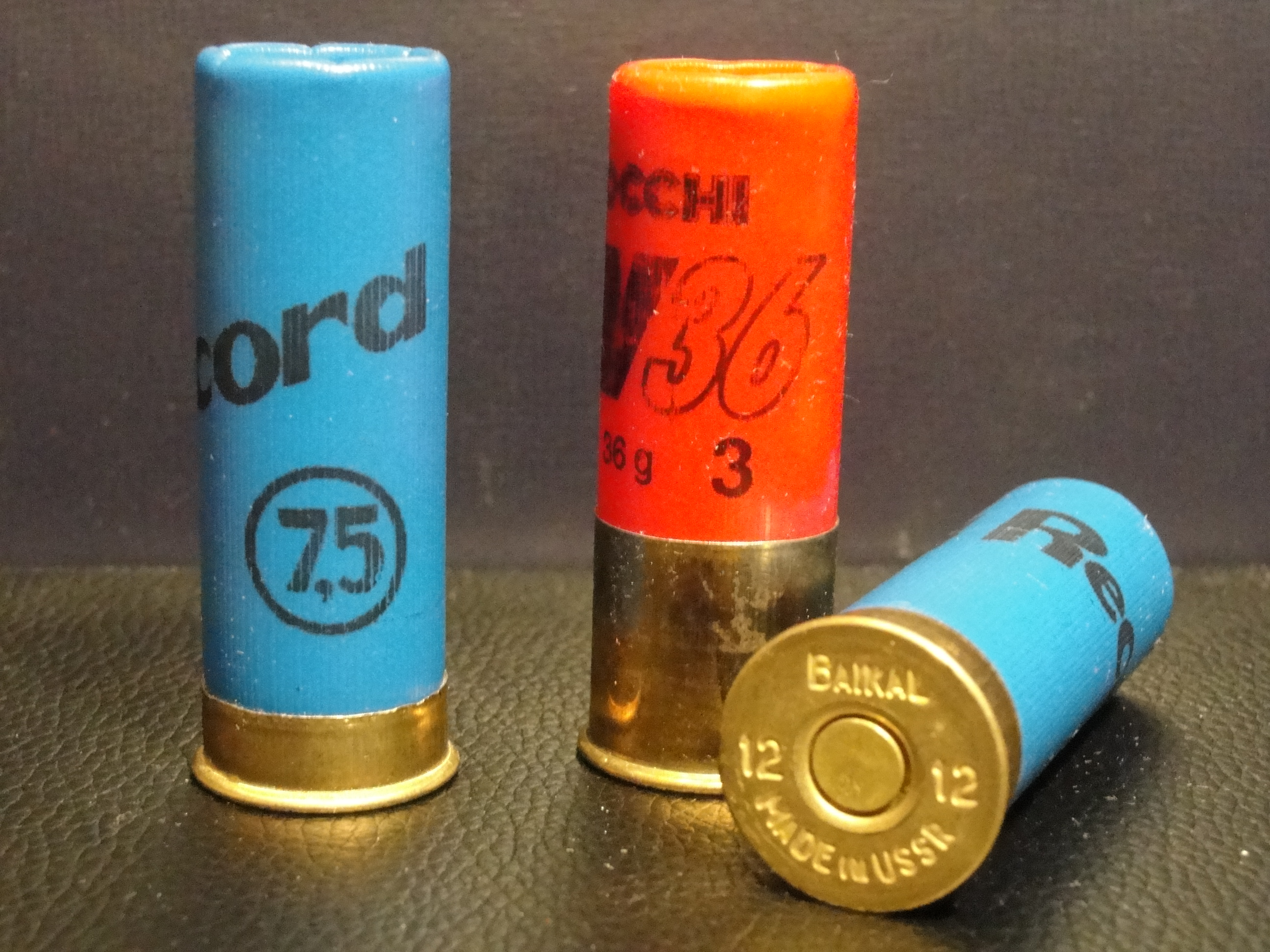 12-bore shotgun cartridges, Russian and Italian made